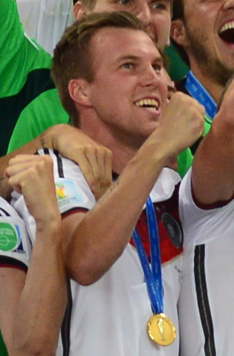 Germany players celebrating the 2014 FIFA World Cup win